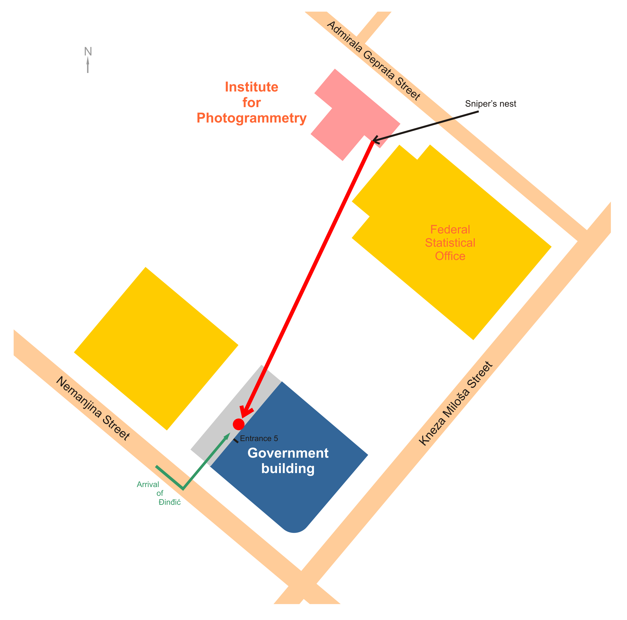 Map of position of Serbian Prime Minister Zoran Đinđić at the moment of his assassination. Đinđić arrived in a convoy and was shot just after he got out of car. His position is marked with a red spot.